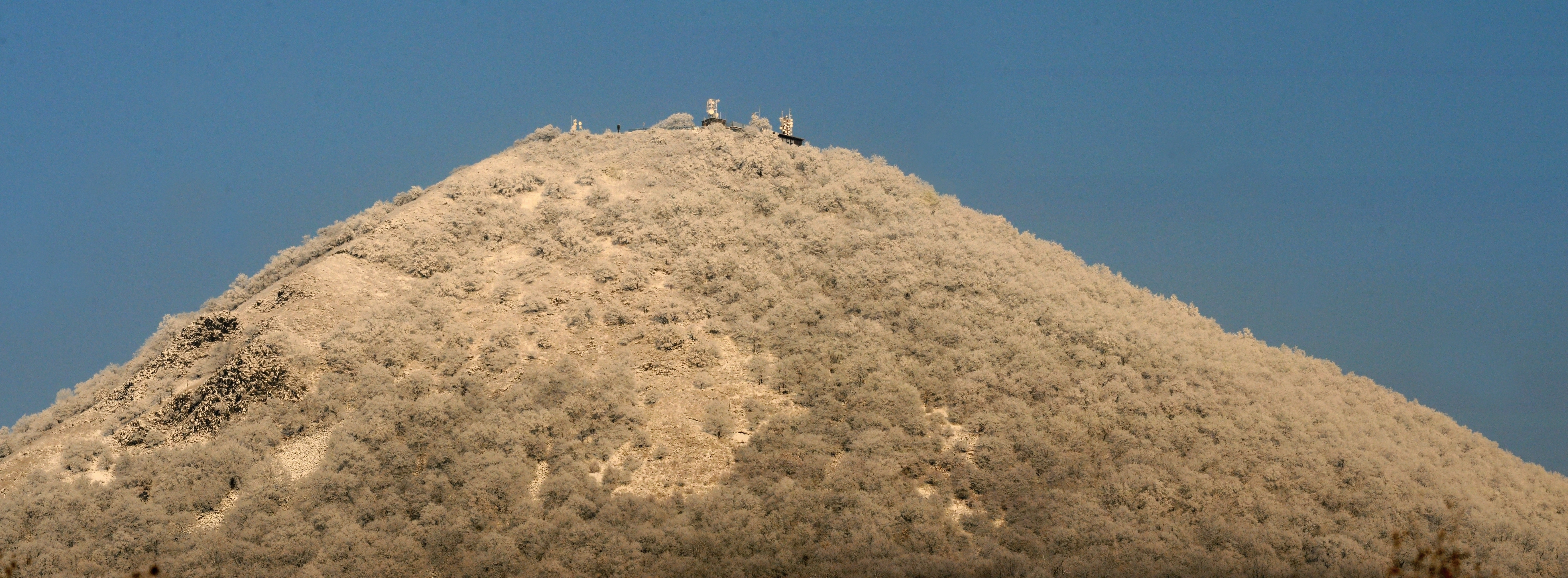 National nature reserve Lovoš in Litoměřice District, Czech Republic